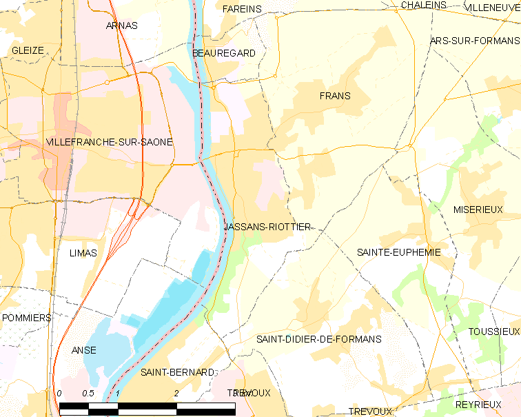 Map of French commune: Jassans-Riottier Map commune FR insee code 01194.png